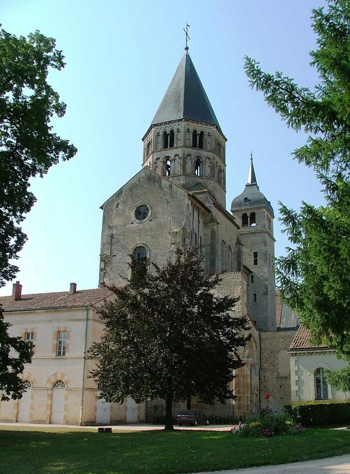 The Abbaye at Cluny